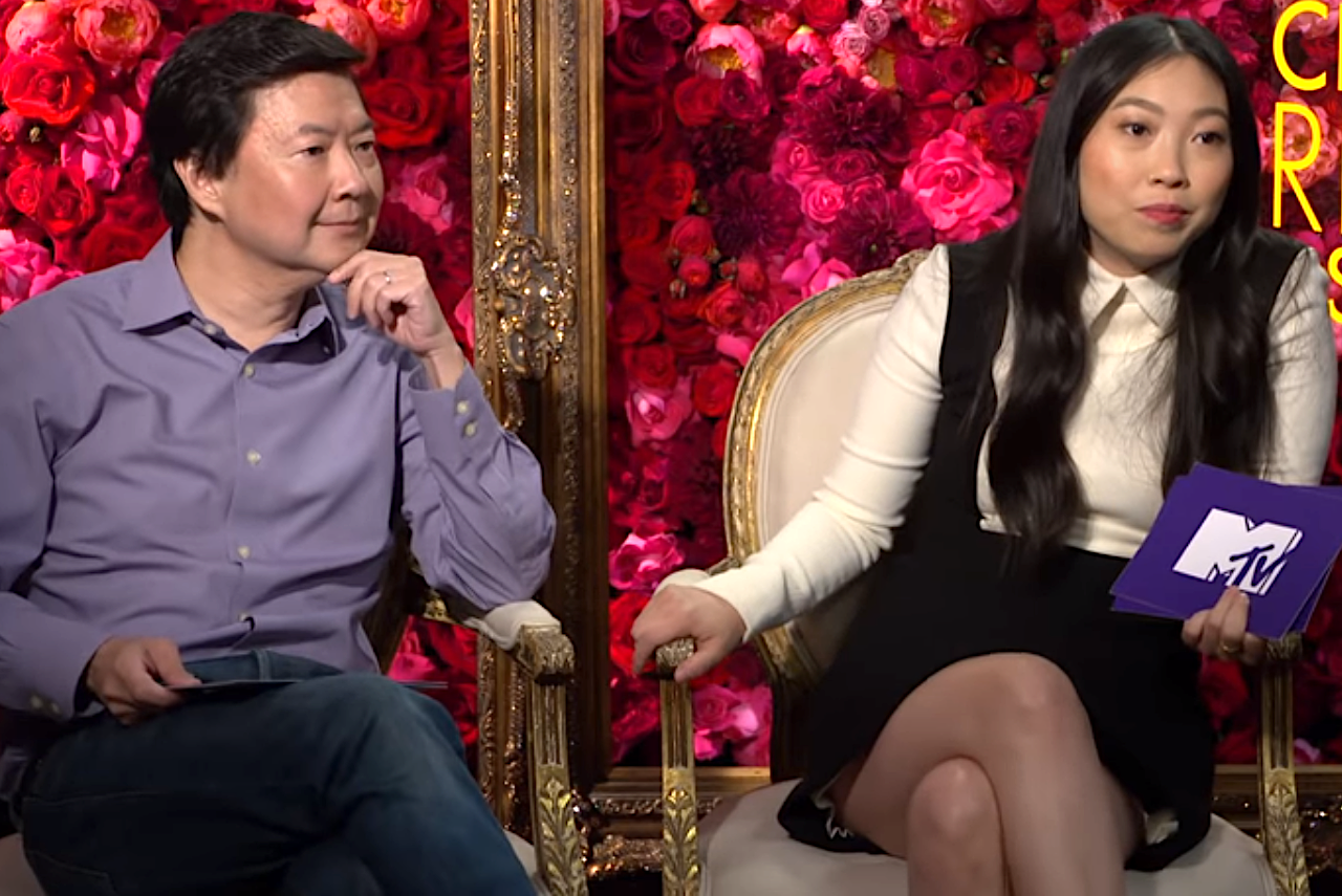 Constance Wu, Henry Golding, Gemma Chan, Ken Jeong and Awkwafina play a hilarious game of Never Have I Ever: CRAZY RICH Edition! Plus, they reveal they were MUGGED BY MONKEYS on set!